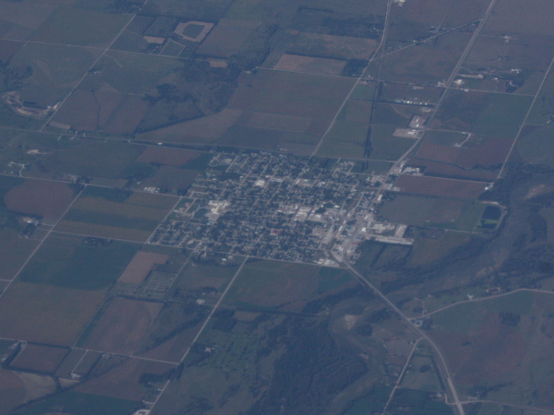 Oblique air photo of St. Paul, Nebraska, facing approximately northwest.